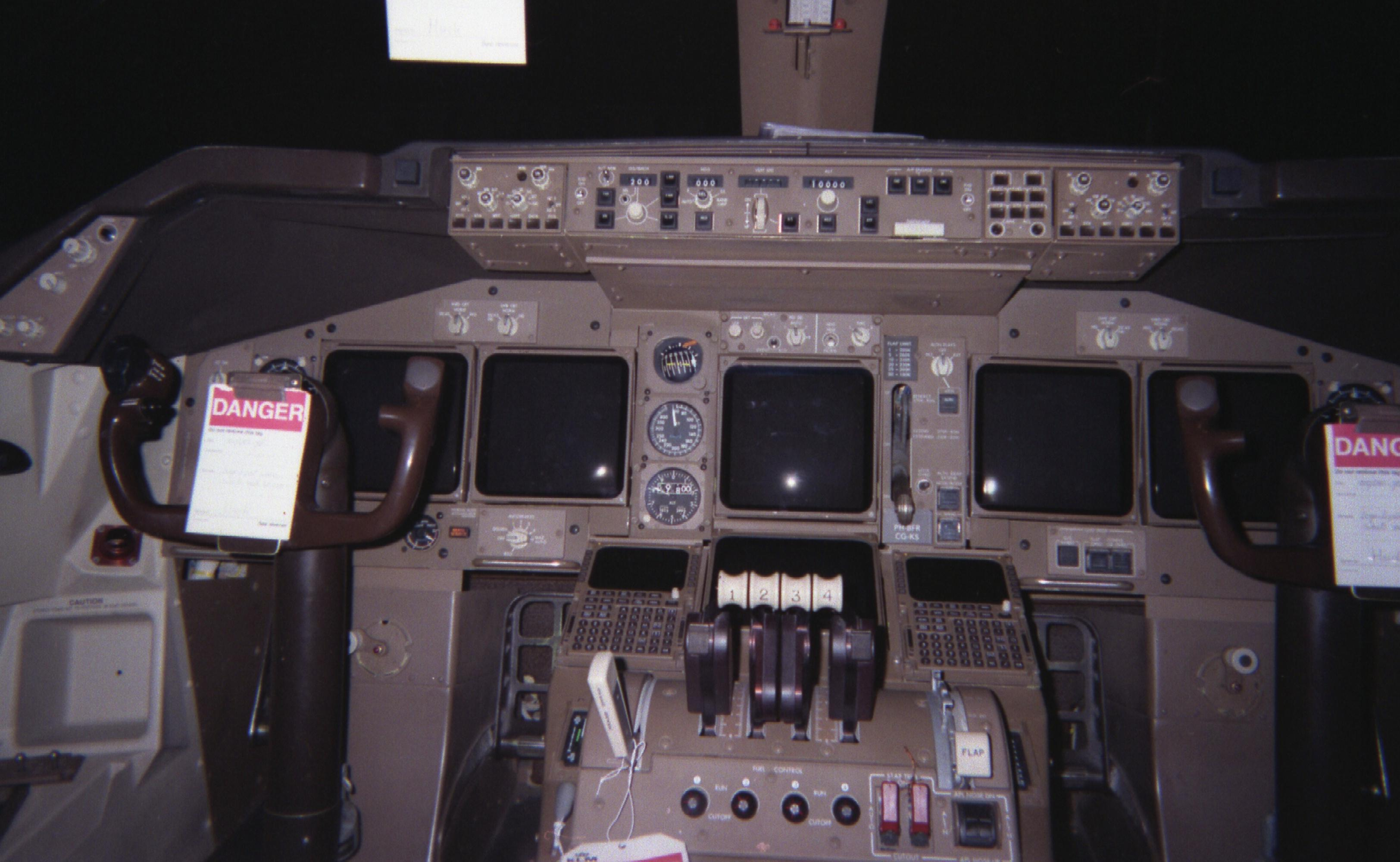 Boeing 747-400 cockpit